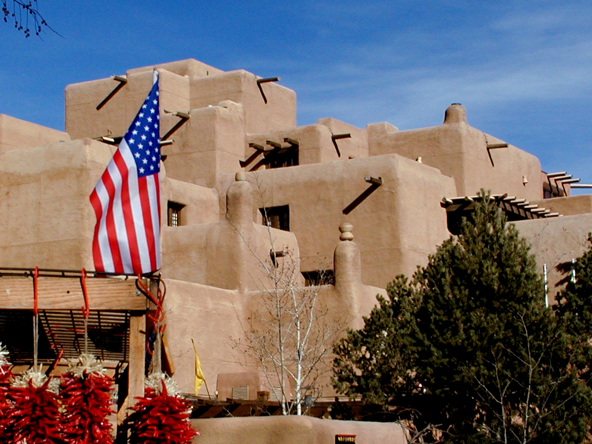 Lorretto Hotel in Santa Fe.(New Mexico, U.S.A.)